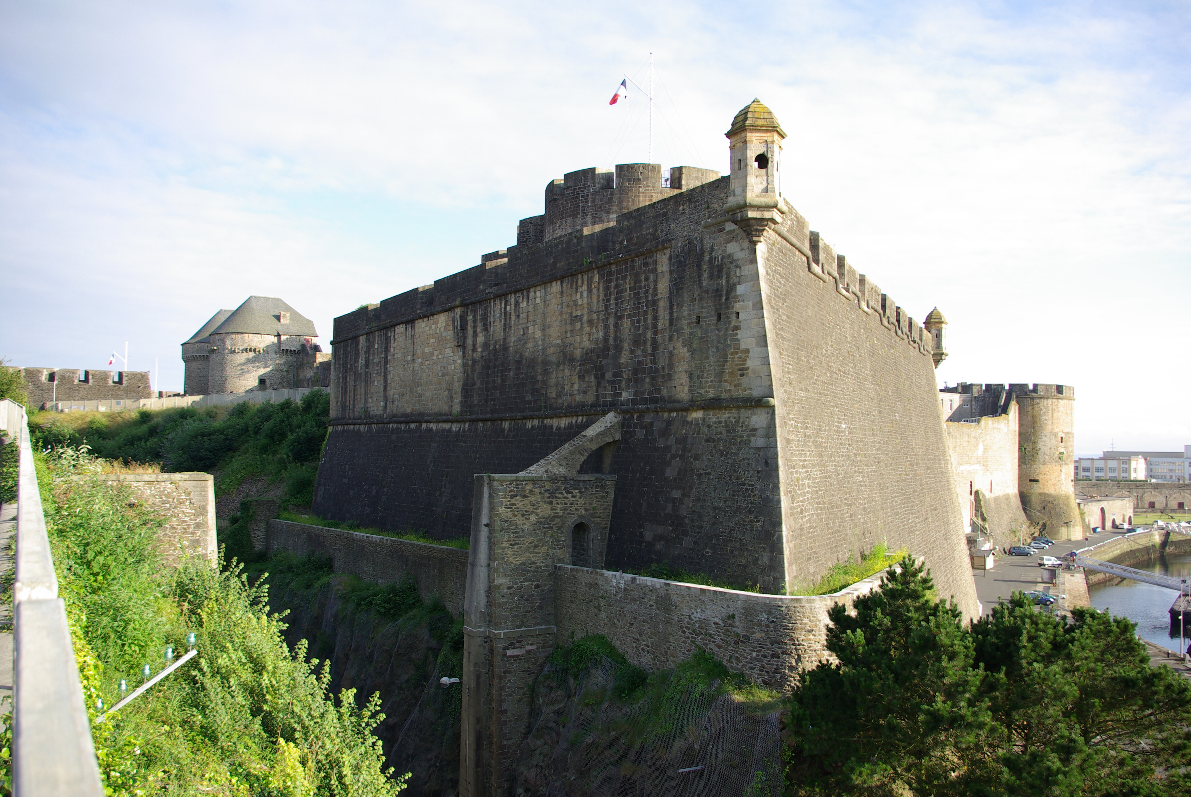 View of the Brest's castle : the bastion of Sourdéac